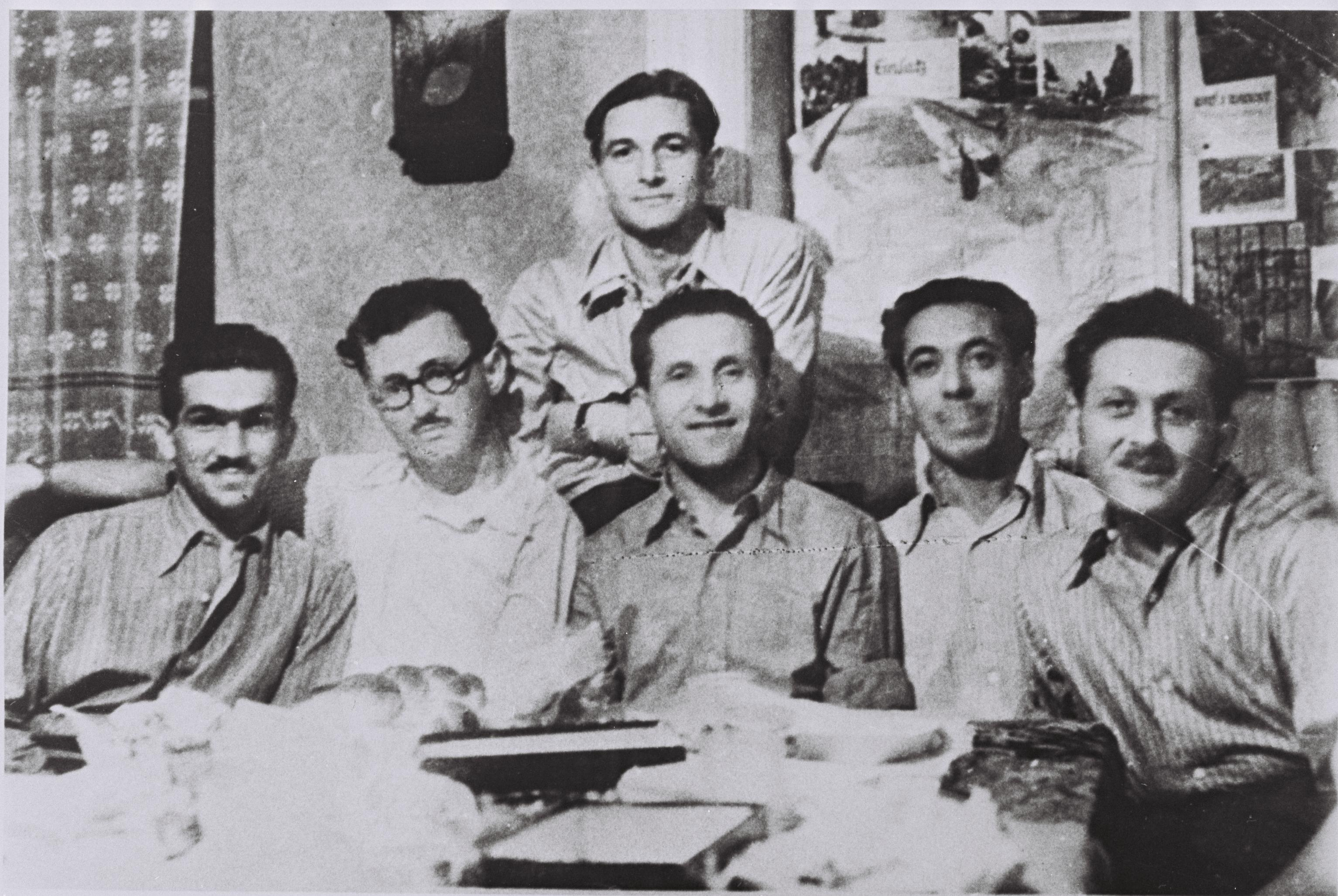 A GROUP JEWISH PARACHUTISTS PHOTOGRAPHED IN BUCHAREST,R.TO L. GUKOVSKY ACHISAR, BAROUCH KAMIN, TRACHTENBERG SHAIKE, BEN-EPHRAIM, ARIE LIPSKY & DOV HARARI. קבוצת צנחנים יהודים אשר צולמו בבבוקרשט לאחר שיחרורם. יושבים מימין לשמאל, גוקובסקי (אחישר), ברוך קמין, טרכטנברג שייקה, בן אפרים, אריה ליפסקי. עומד מאחור, דוב הררי.